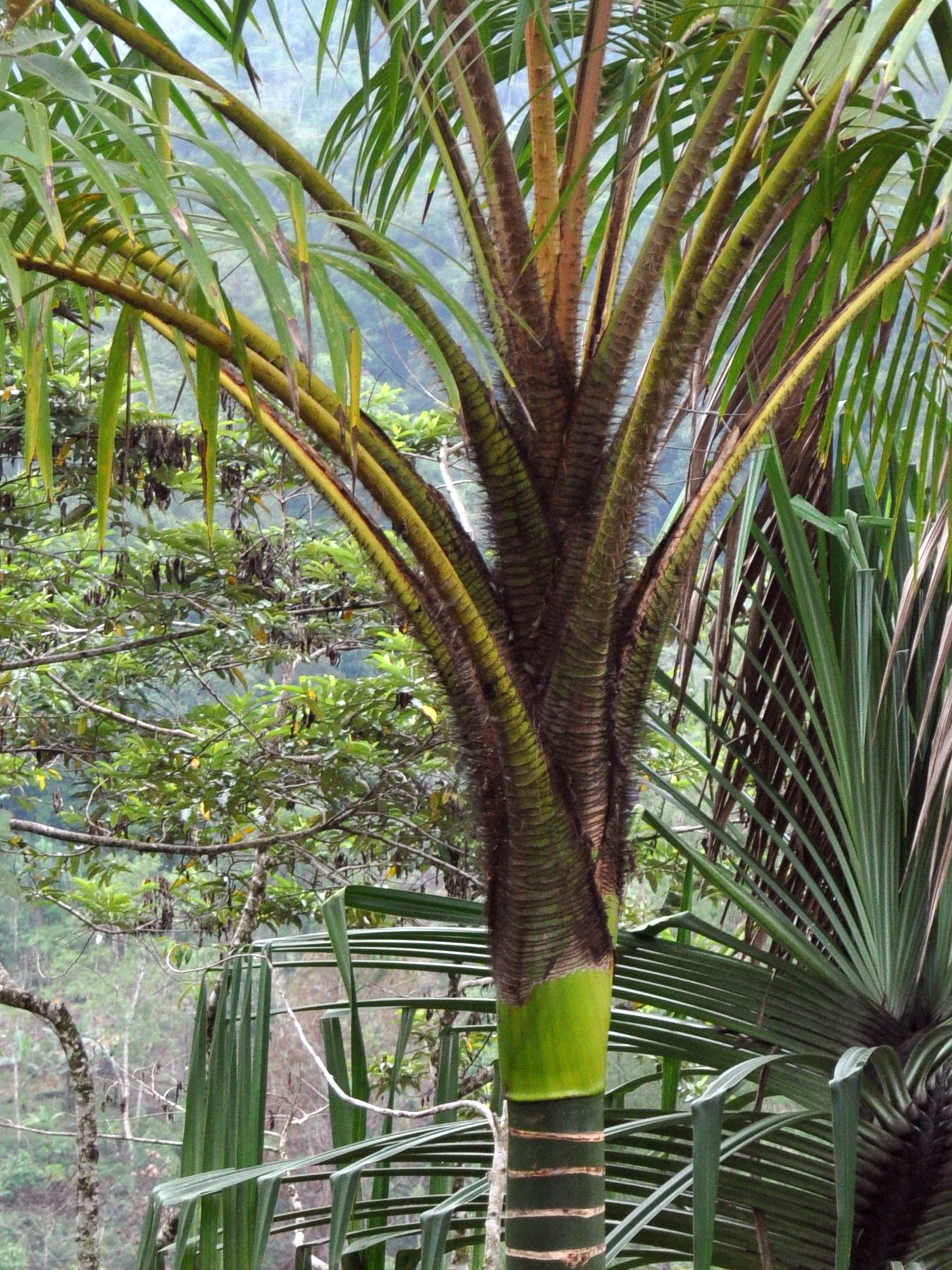 Wanga, Pigafetta elata; densely spiny petioles and rachises. From Mamasa, West Sulawesi, Indonesia.